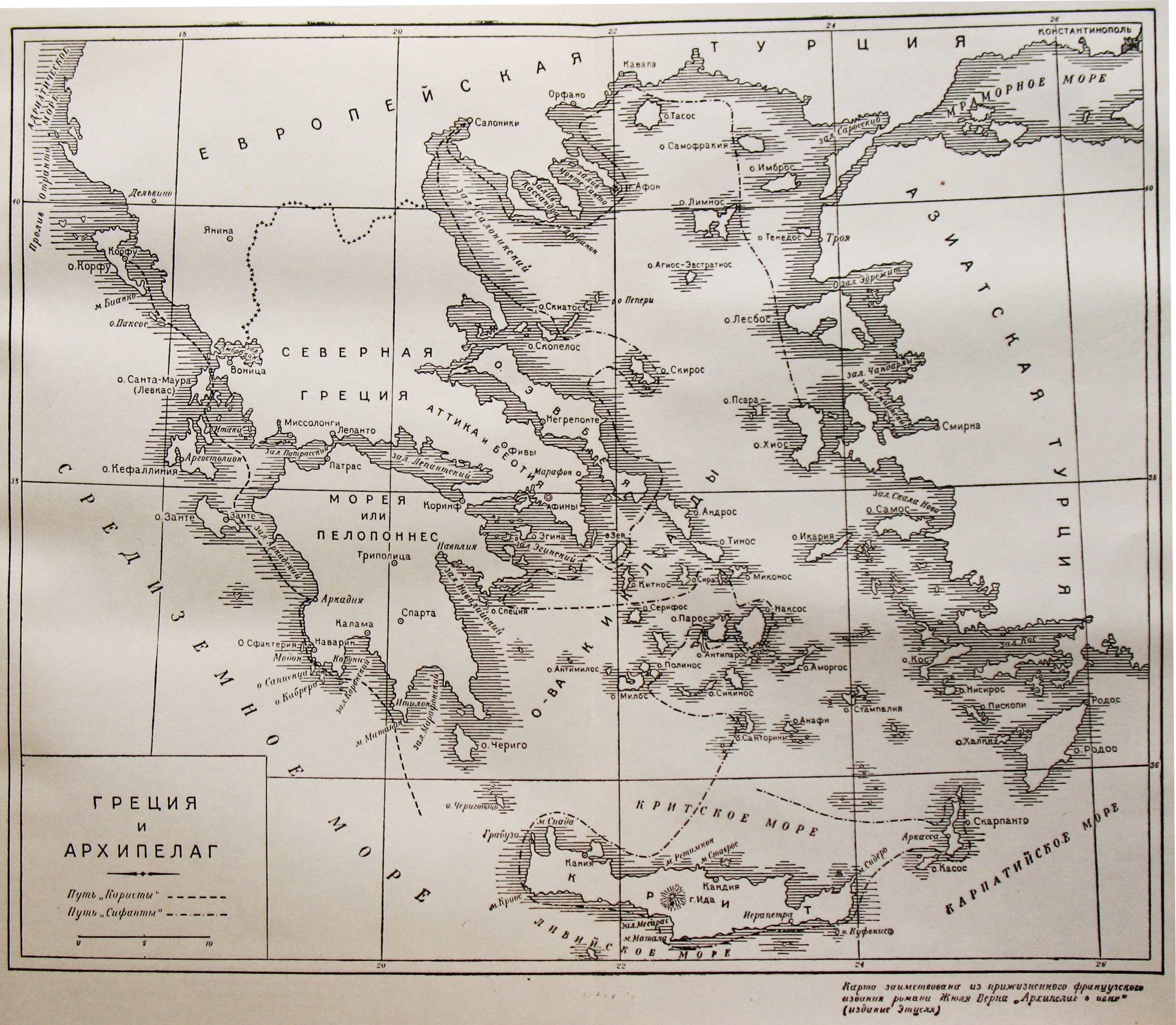 Jules Verne. Greece map.